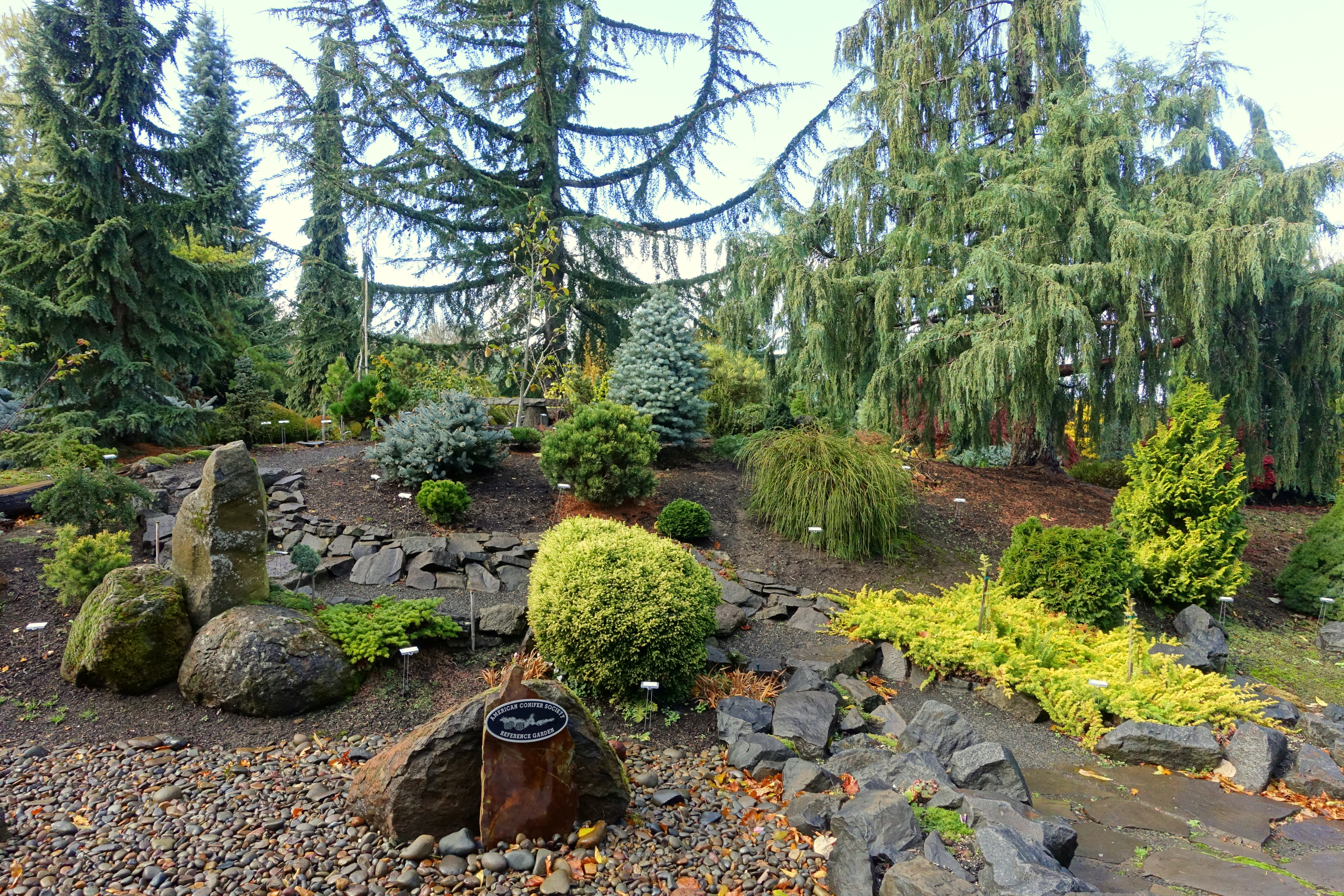 American Conifer Society Reference Garden in the Oregon Garden - Silverton, Oregon, USA.